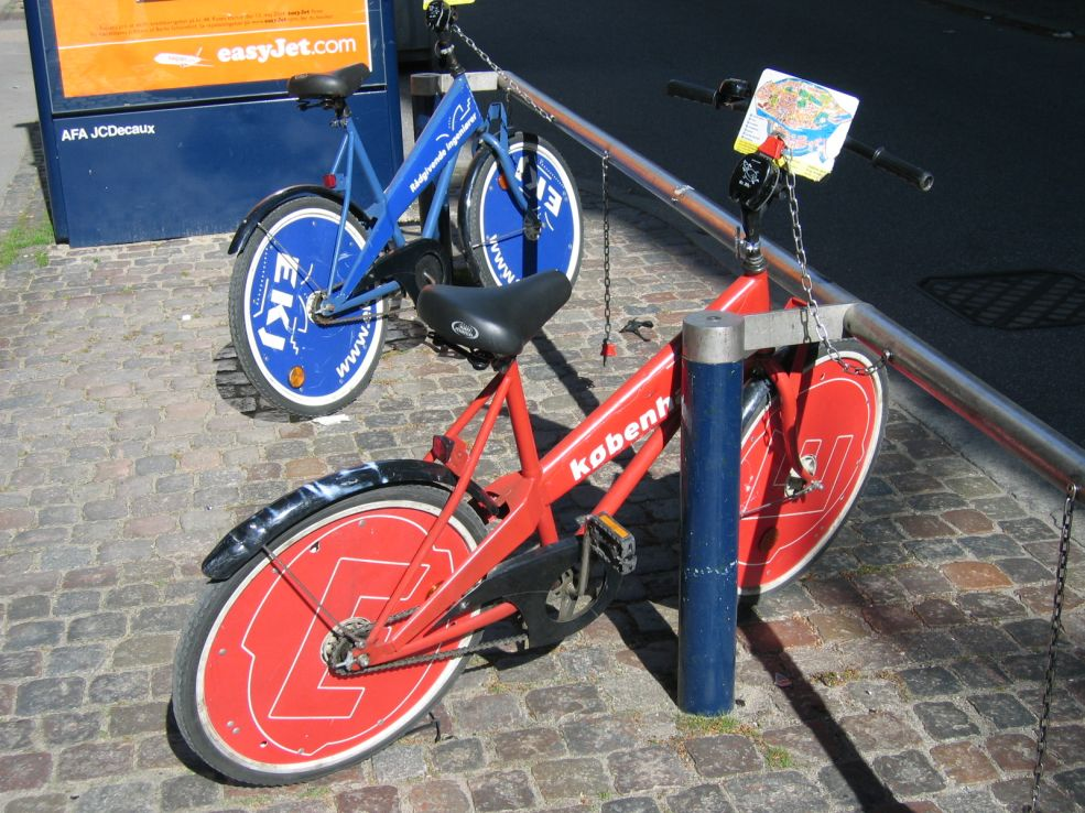 Public bicycles in Copenhagen.